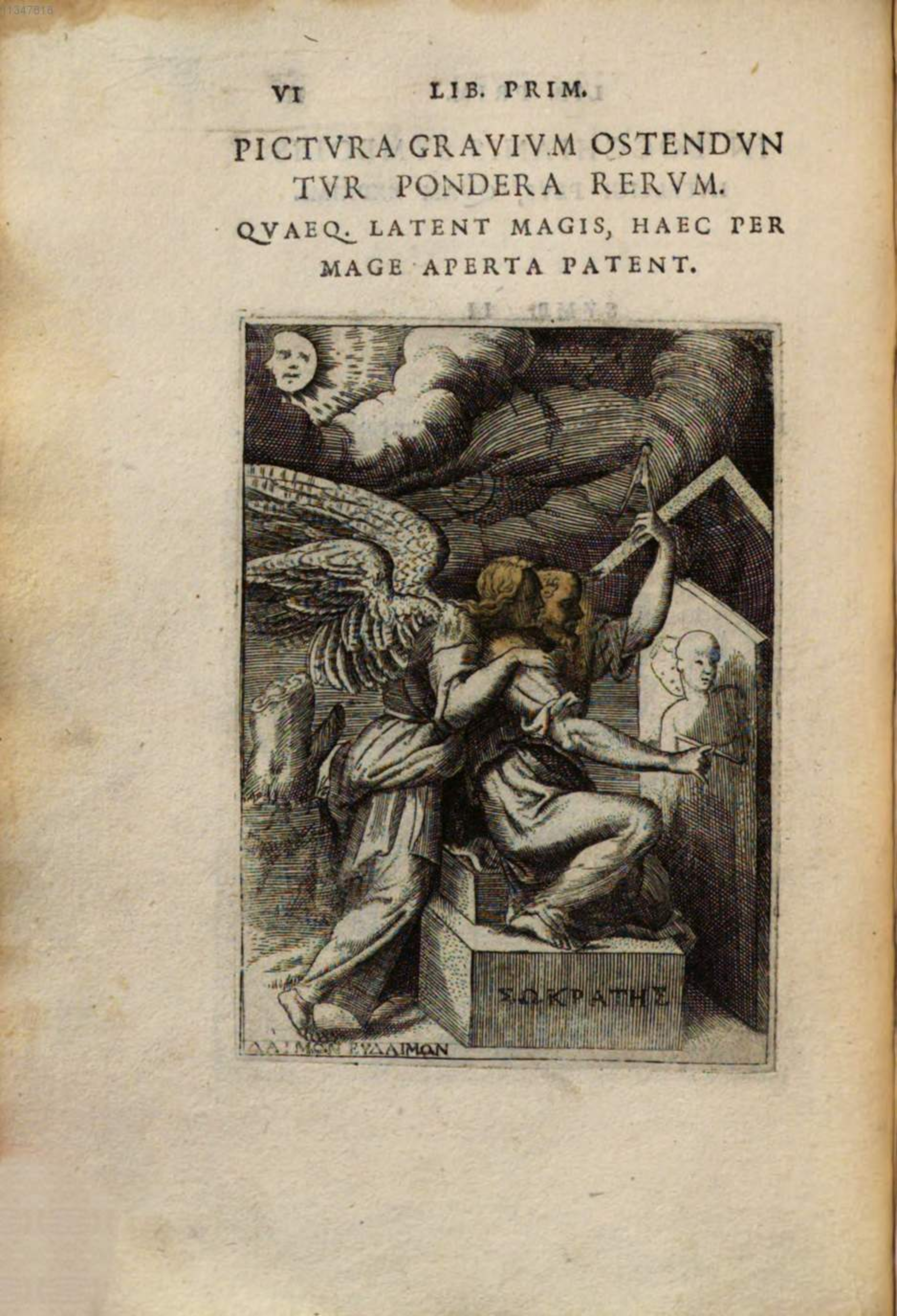 An engraving in Achille Bocchi's Symbolicarum quaestionum de universo genere, quas serio ludebat, libri quinque printed at Bologna. The picture shows Socrates with his daimonion.